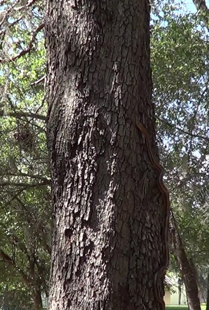 This opportunistic Yellow Rat Snake is looking for his next meal high atop this Live Oak tree. Just before he arrives at a bird's nest to eat the eggs that are in it, an angry mama Blue Jay frantically swoops down several times at him, causing him to change his mind and look for his breakfast elsewhere.